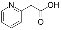 Structure of 2-pyridylacetic acid